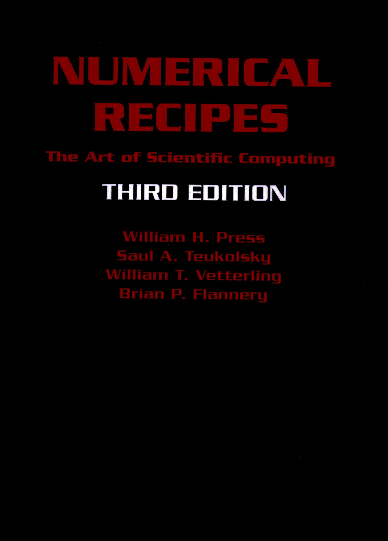 Scanned cover of the book Numerical Recipes: The Art of Scientific Computing (Third Edition)